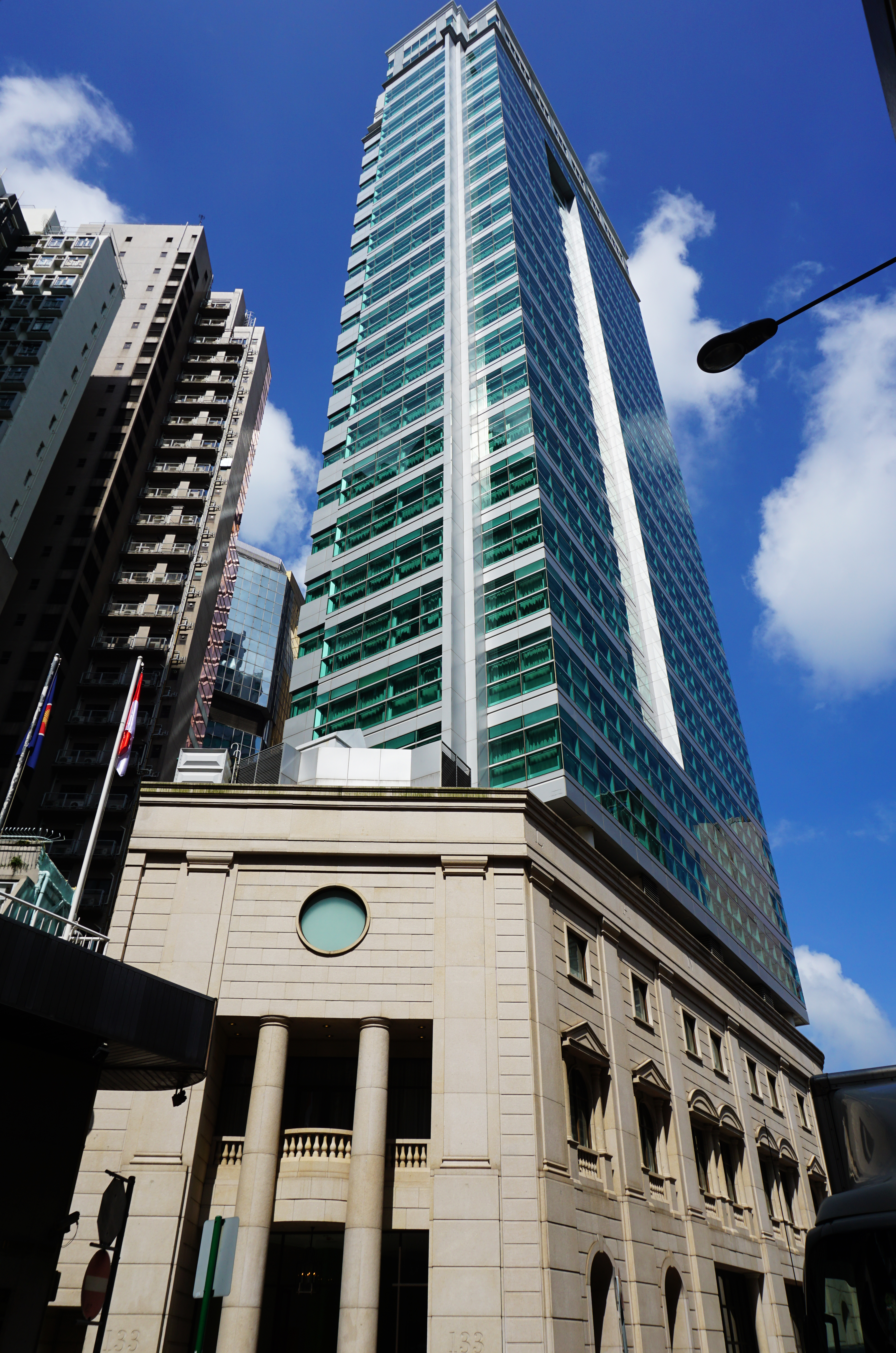 Lanson Place Hotel in Causeway Bay, Hong Kong.